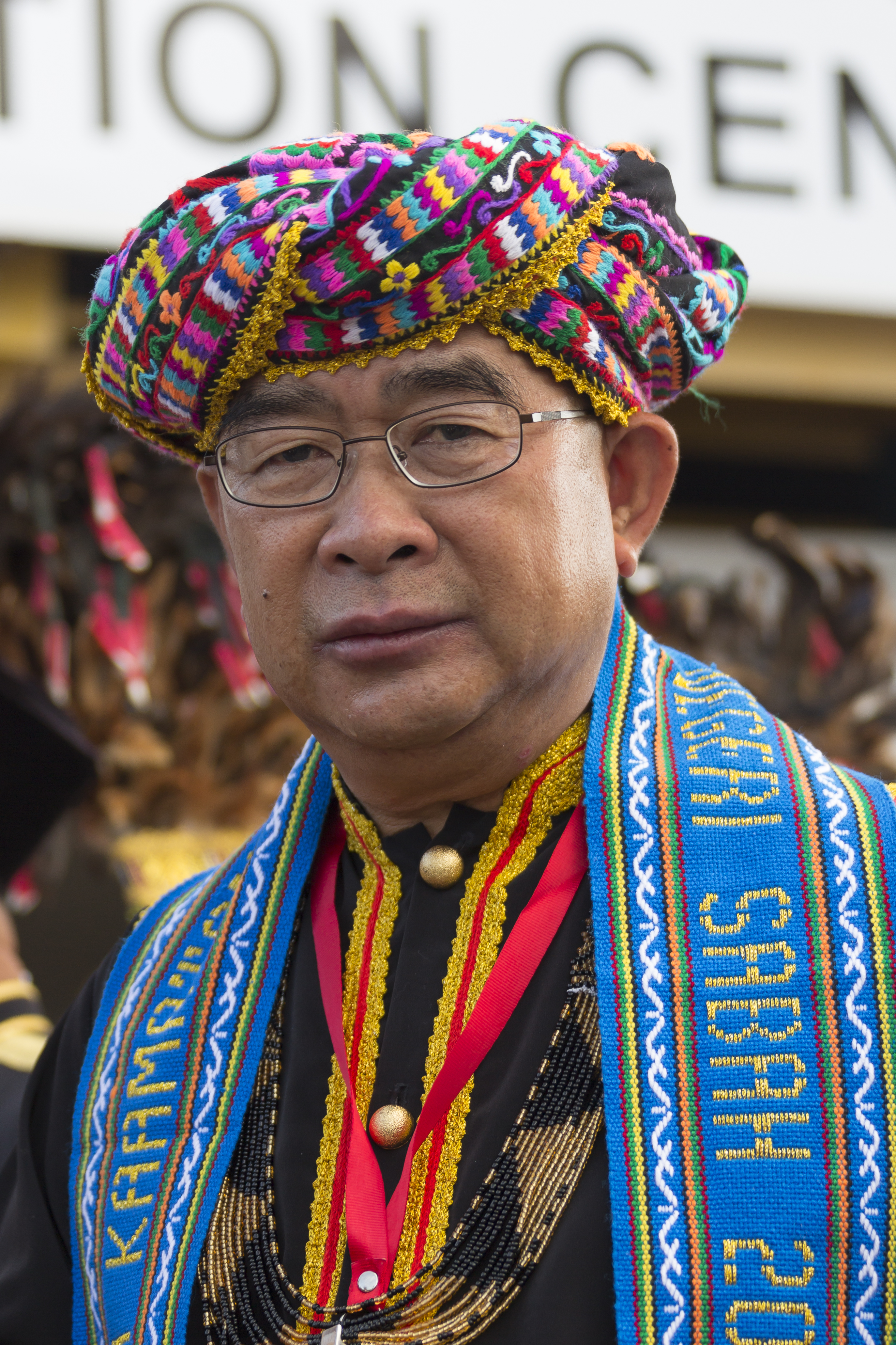 Penampang, Sabah: Maximus Johnity Ongkili, Minister of Science, Technology and Innovation of Malaysia. Photo taken at Hongkod Koisaan, the unity hall of KDCA, during Kaamatan Festival 2014